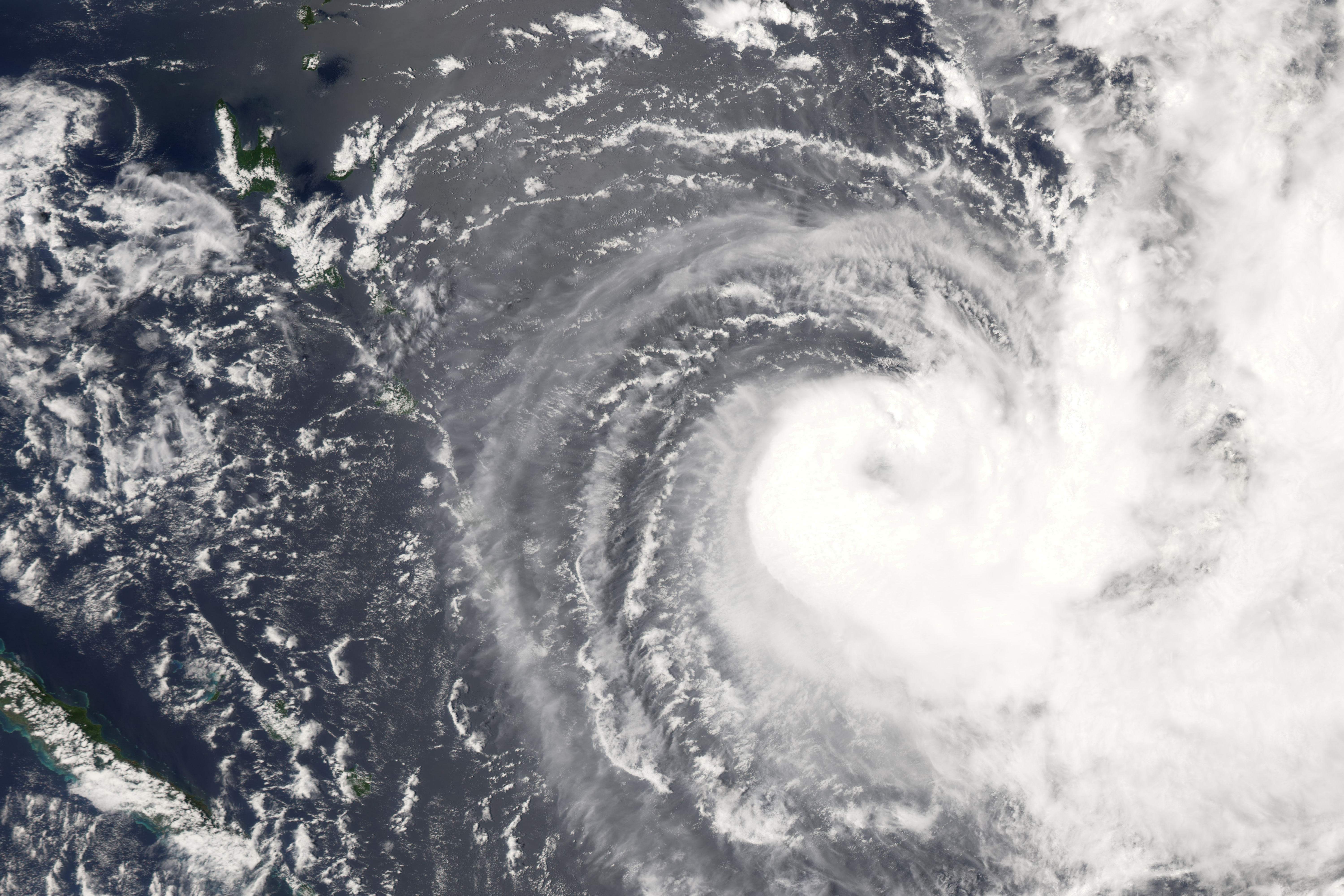 Tropical Cyclone Gene seen from Aqua satellite at 1410Z Jan 30, 2008